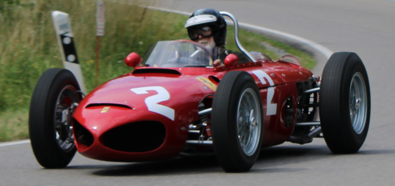 Ferrari Tipo 156 Sharknose at Solitude Revival 2019